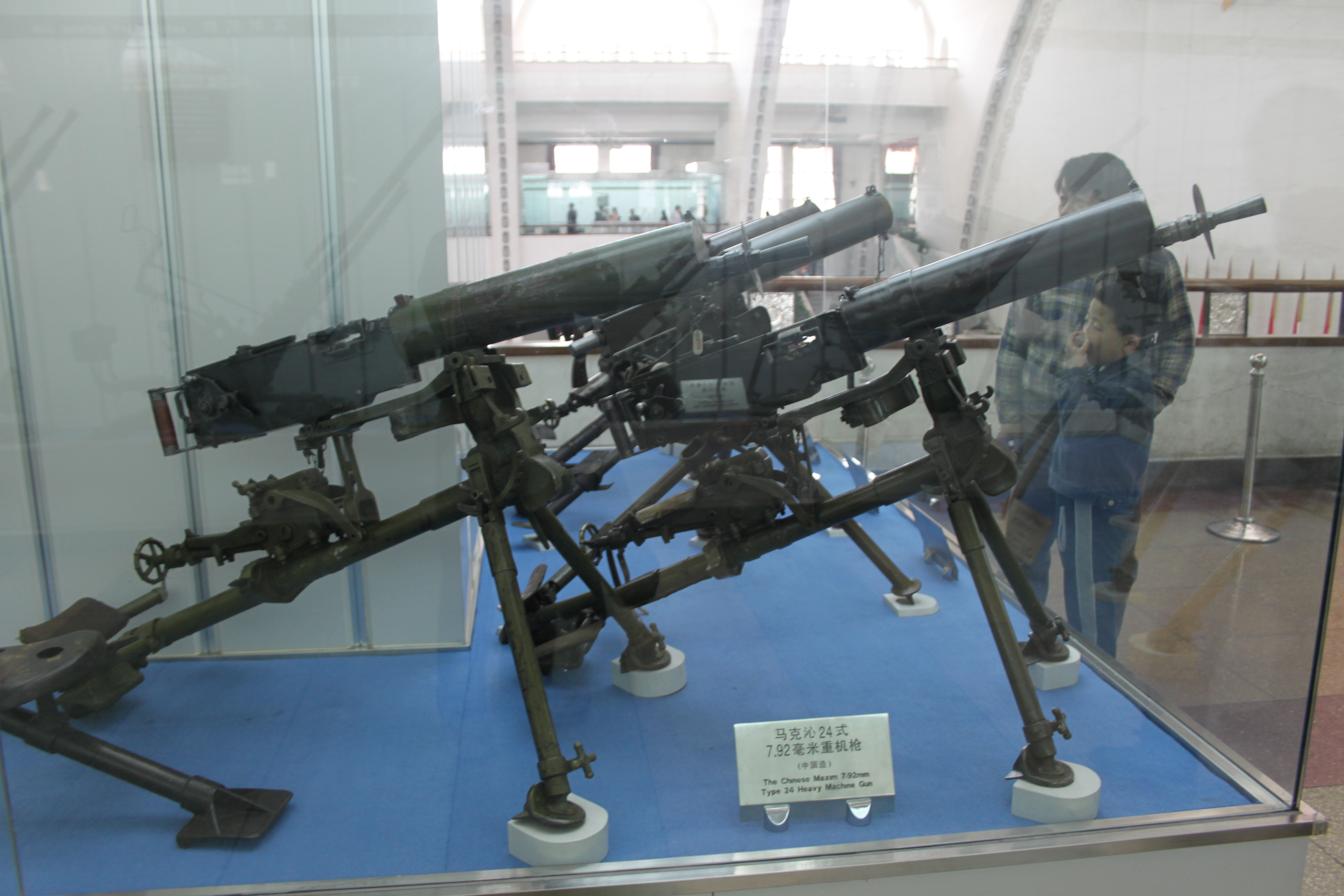 Military Museum: Modern Weapons, Small Arms Gallery. Complete indexed photo collection at .